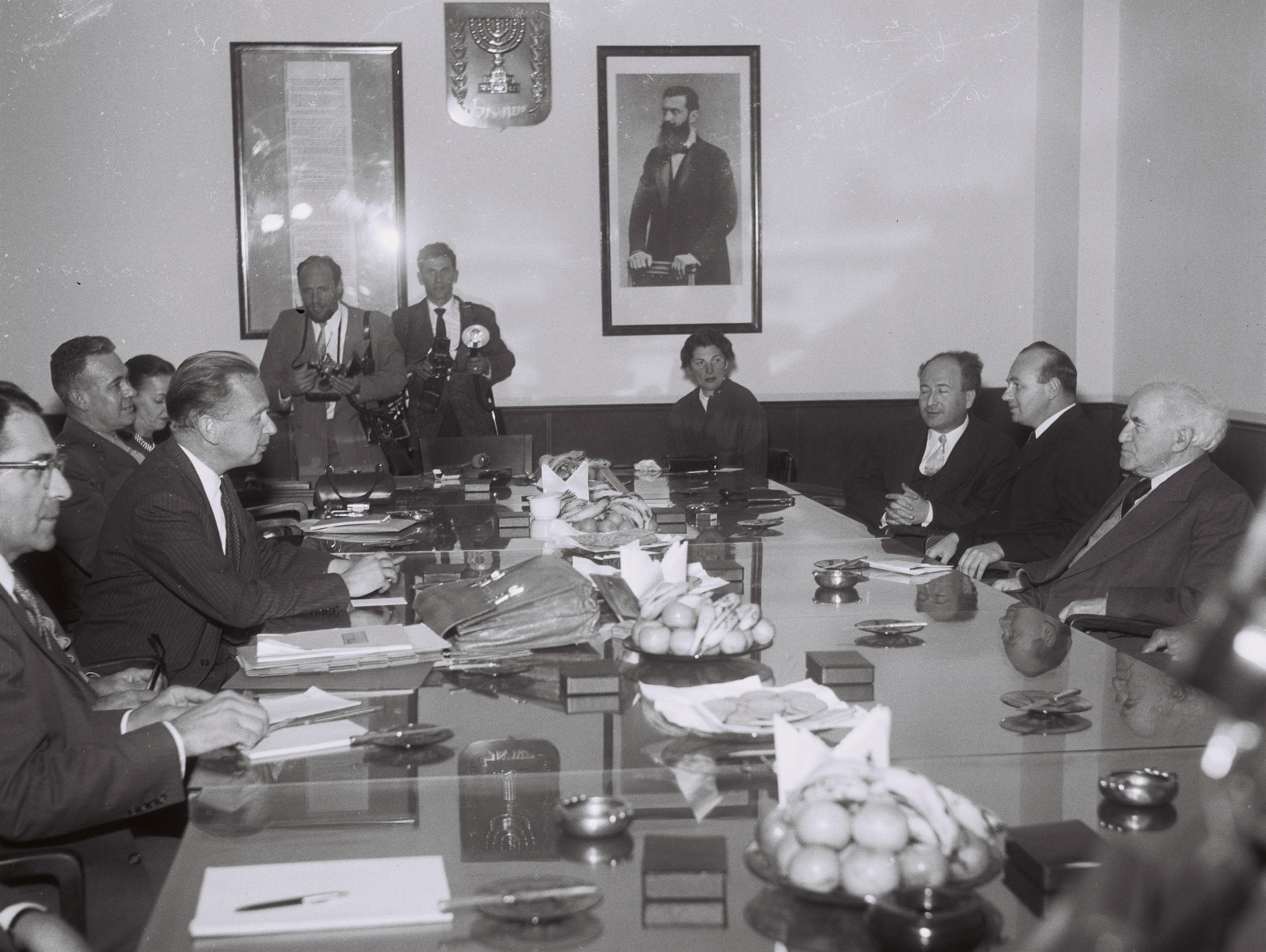 AT MEETING IN JERUSALEM. UN SECY.-GEN. DAG HAMMARSKJOLD (LEFT CENTER), PRIME MINISTER DAVID BEN GURION (R), MR. TEKOAH AND MR. EYTAN